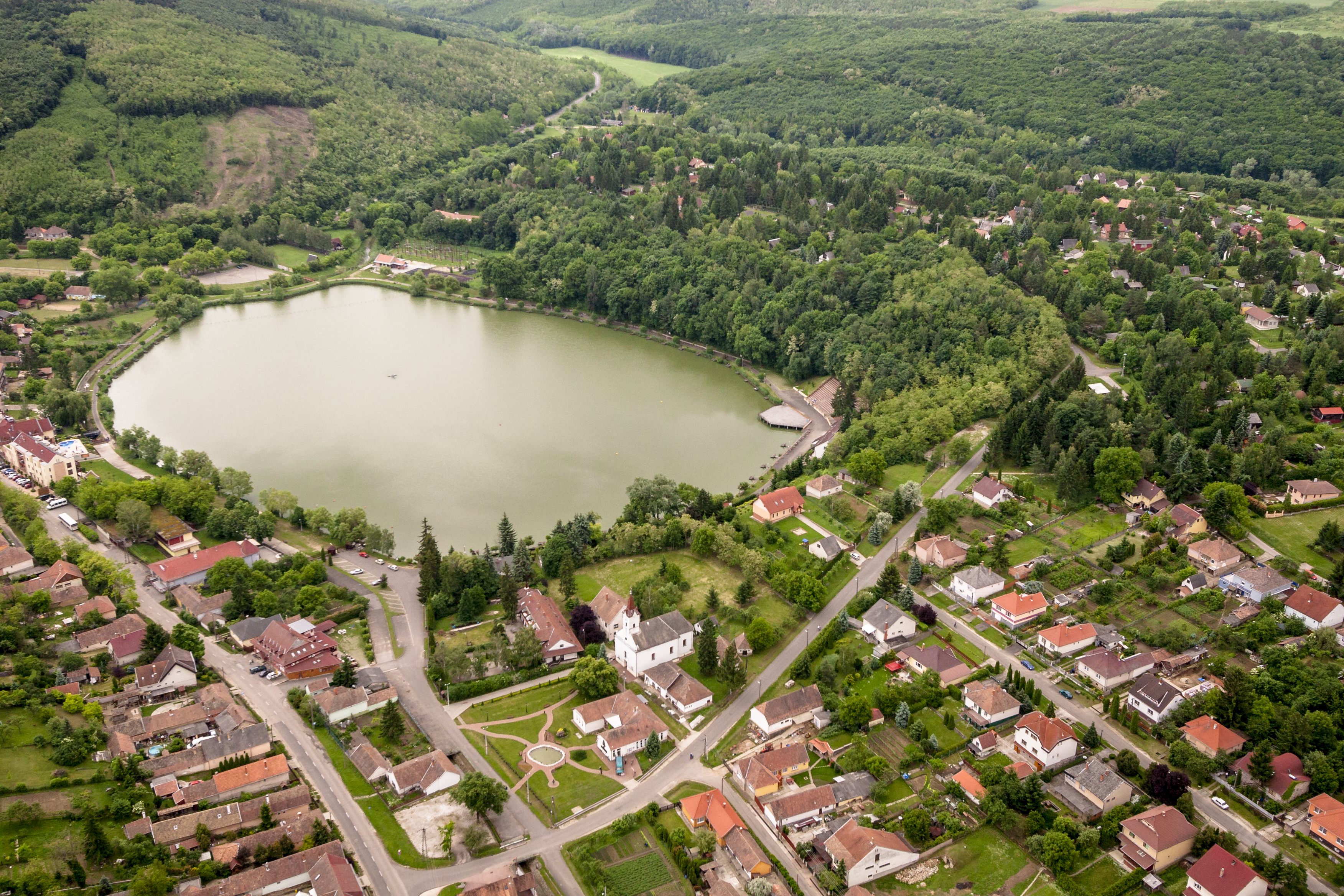 Bánki Lake from above, Bánk, Hungary